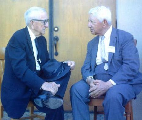 Photo of a photograph of Evangelical Methodist Church founders Dr. J.H. Hamblen and Ezekiel Vargas, date unknown.